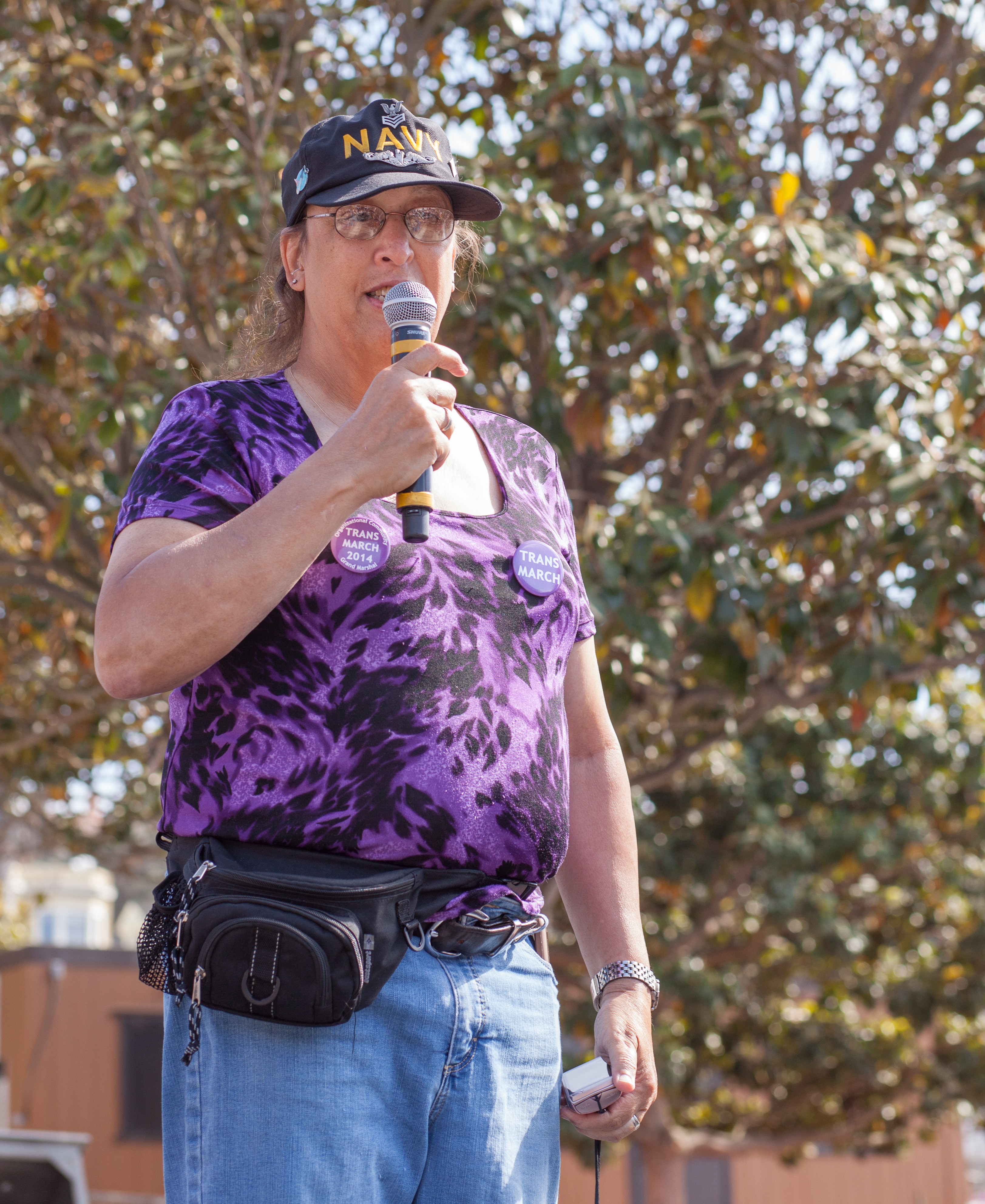 Monica Helms, trans female Navy veteran and transgender pride flag designer, speaks at the Trans March in San Francisco, June 26, 2015.